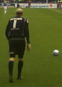 Peter Enckelman playing at Ninian Park